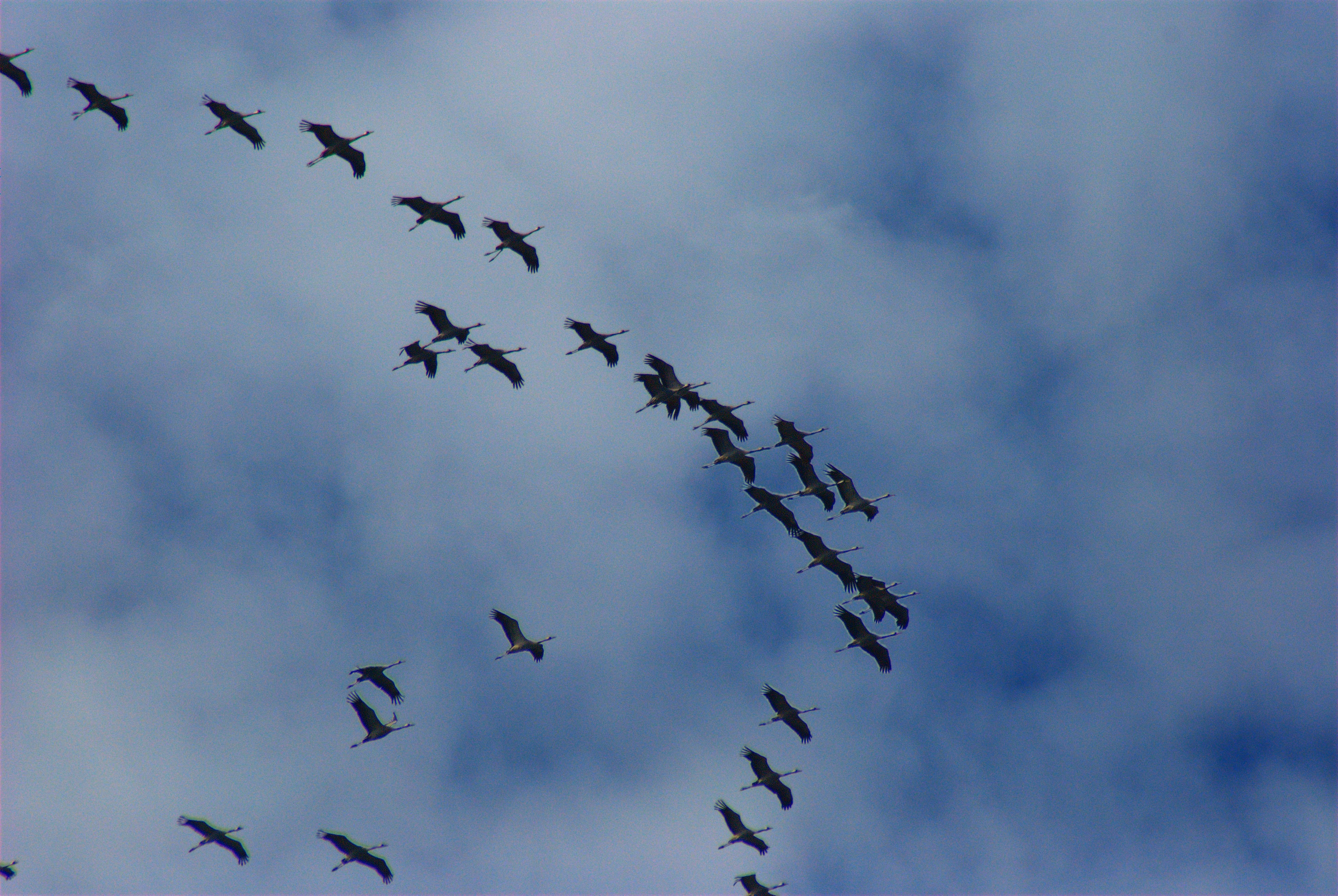 Common Crane (also known as the Eurasian Crane) migrating north over Spain.